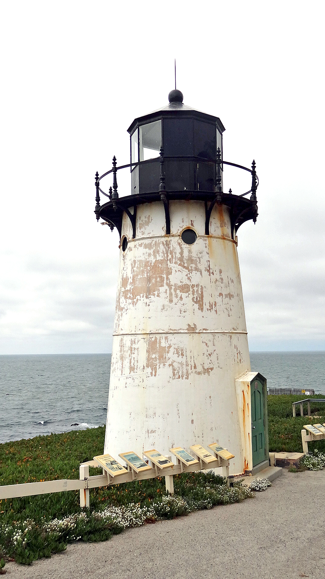 PLEASE, NO invitations or self promotions, THEY WILL BE DELETED. My photos are FREE to use, just give me credit and it would be nice if you let me know, thanks. I had met my friend while on a tour in Switzerland and Austria. She knew I liked lighthouses and she was kind enough to invite me to visit California to take picture of lighthouses. The Point Montara lighthouse in Montara, approximately 40.23 km (25 mi) south of San Francisco. The lighthouse is open to the public, and is the site of a youth hostel sponsored by Hostelling International USA. This lighthouse station was established in February 1875. It originally had a kerosene lantern, but was upgraded in 1912 to a fourth order Fresnel lens. The current tower was first erected in 1881 in Wellfleet, Massachusetts as the Mayo Beach Lighthouse. In 1925, the cast iron tower from the discontinued Mayo Beach Light was disassembled and moved to Yerba Buena. It was moved again and rebuilt as the Point Montara Lighthouse in 1928, where it stands today. The lens was transferred to the San Mateo Historical Society when the lighthouse was automated in 1970, and is currently on display at the library at the College of Notre Dame in Belmont, California. Another lighthouse for my book.